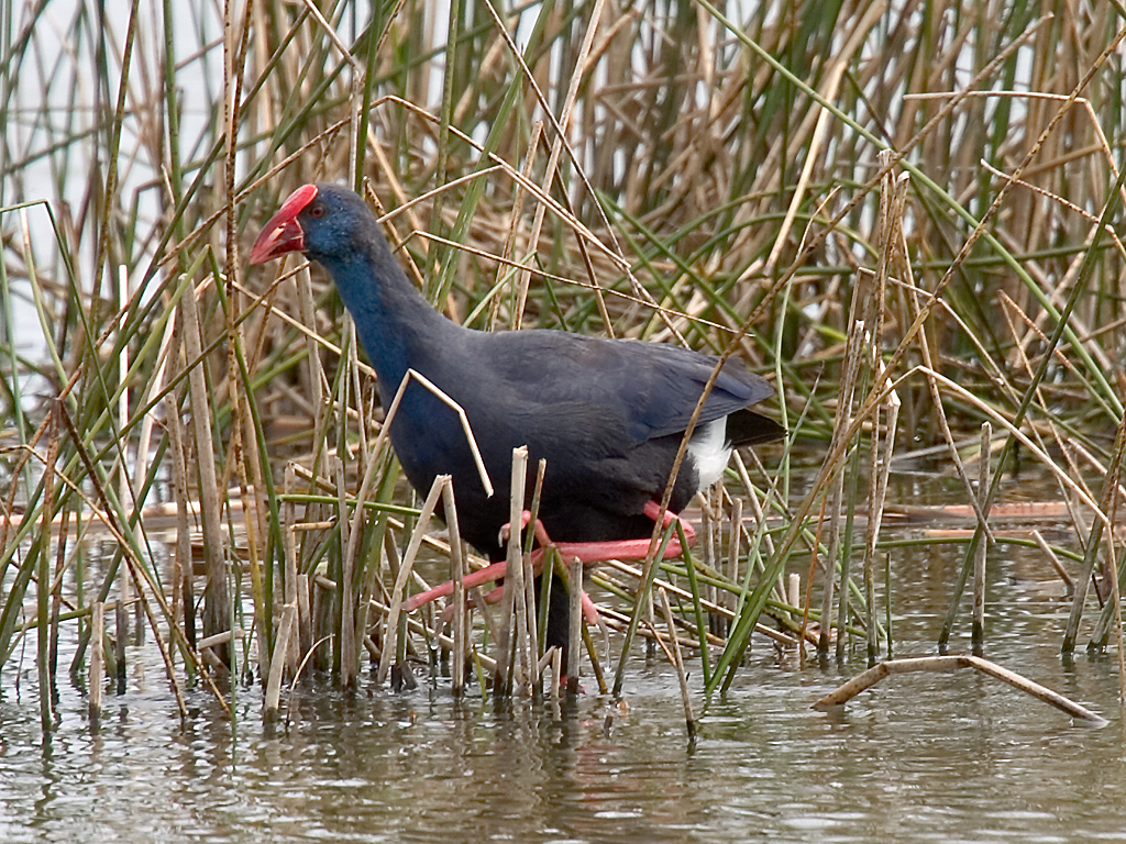 Purple Swamphen in Europe.